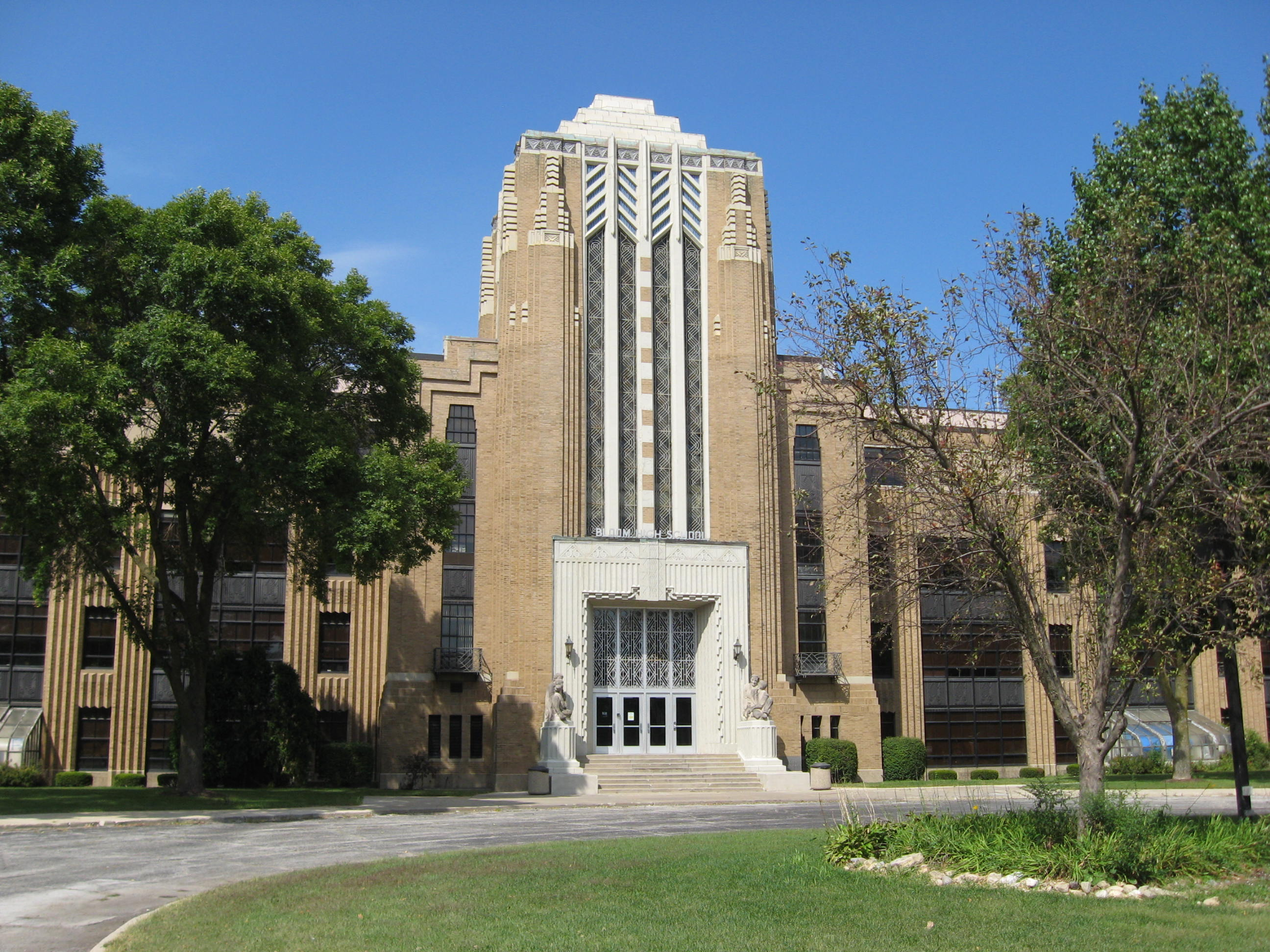 Front entrance of Bloom High School, Chicago Heights, Illinois, showing Edgar Britton's 1935 Art Deco frescoes and Curtis Drewes' two limestone sculptures